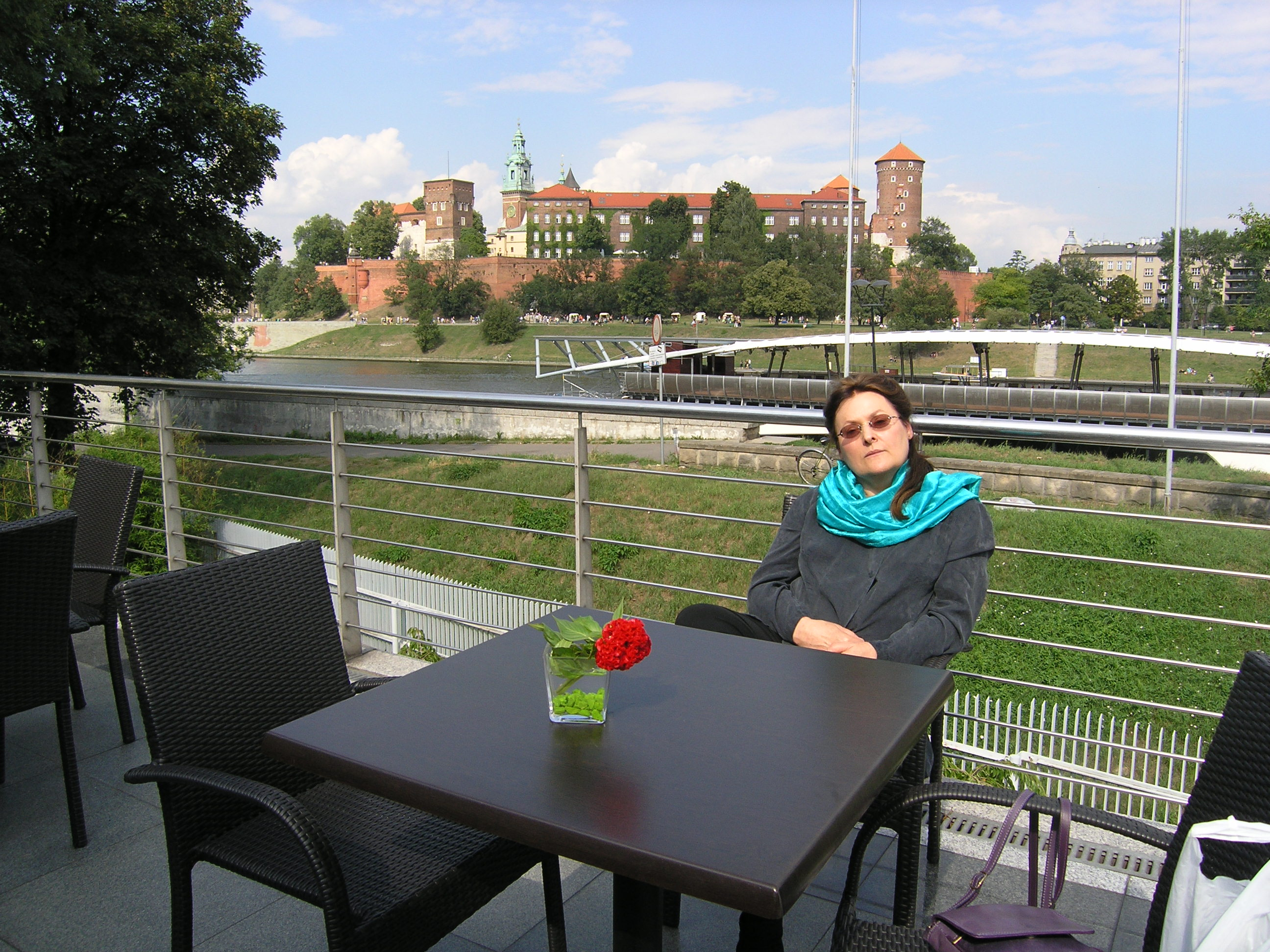 Professor Jadwiga Pstrusinska in Cracow, Polish Orientalist (2012)